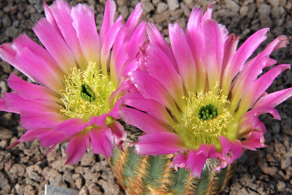 Echinocereus pectinatus subsp. wenigeri